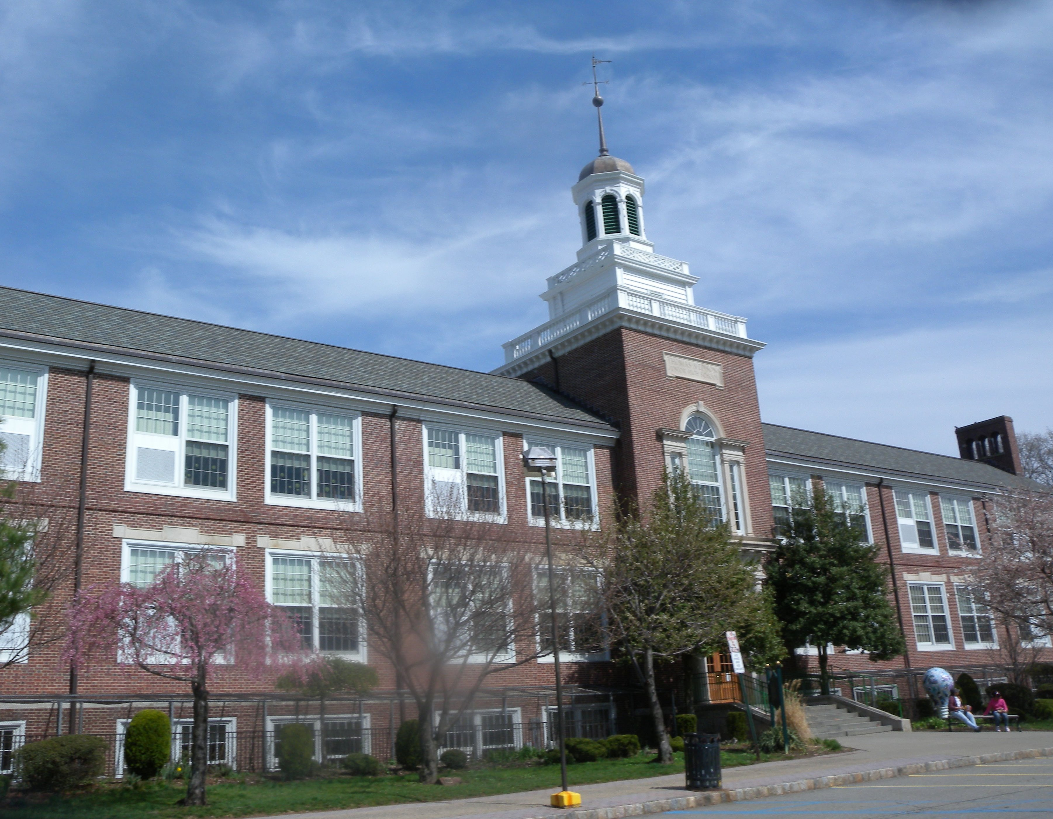 Looking east at Edison Junior High on a sunny midday.